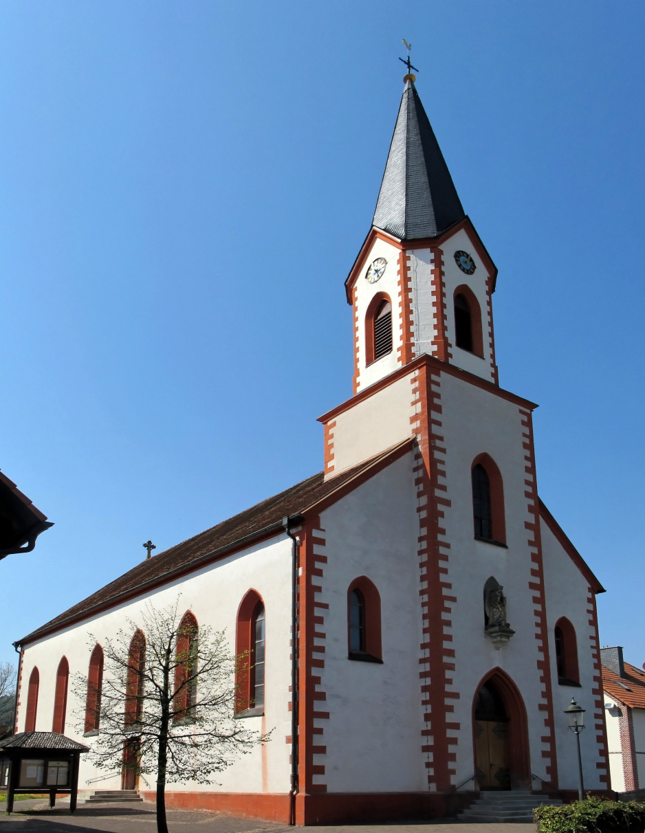 Village Wüstensachsen, kath. Church St.Michael